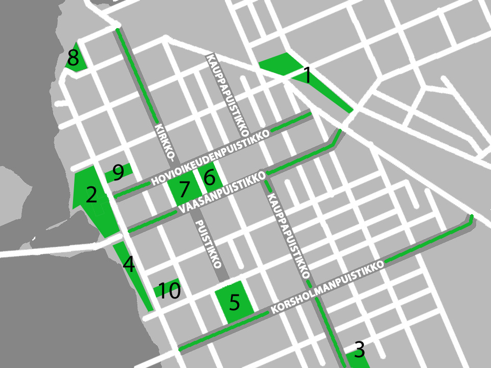 Public parks in the centre of Vaasa, Finland: 1 – Asemanpuisto, 2 – Hovioikeudenpuisto, 3 – Inkerinpuisto, 4 – Kalarannan puisto, 5 – Kasarmintori, 6 – Kaupungintalonpuisto, 7 – Kirkkopuisto, 8 – Marianpuisto, 9 – Setterbergin puisto, 10 – Koivupuisto.